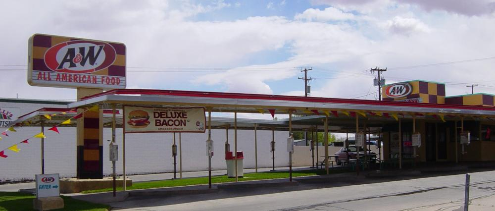 A&W restaurant in Page, Arizona. Taken by Daniel Mayer on April 10, 2004.